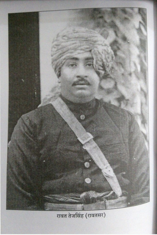 Rawat Tej Singhji